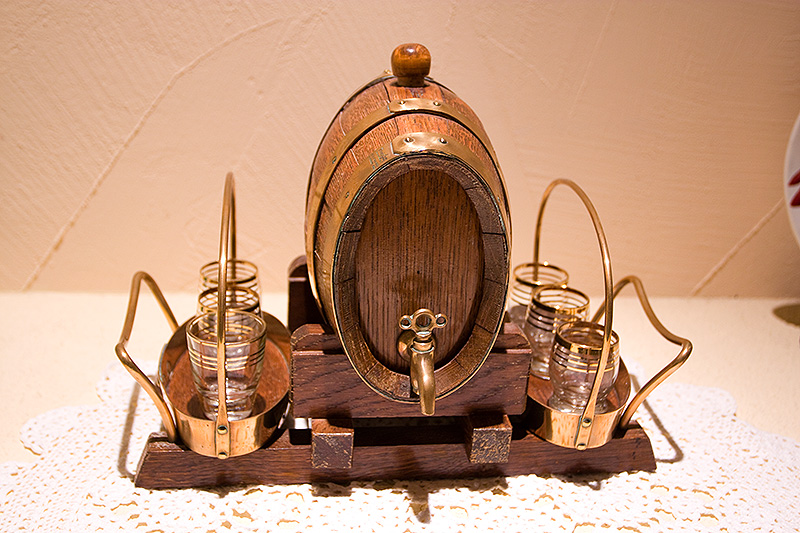 Small french cognac barrel from cognac museum in Moscow